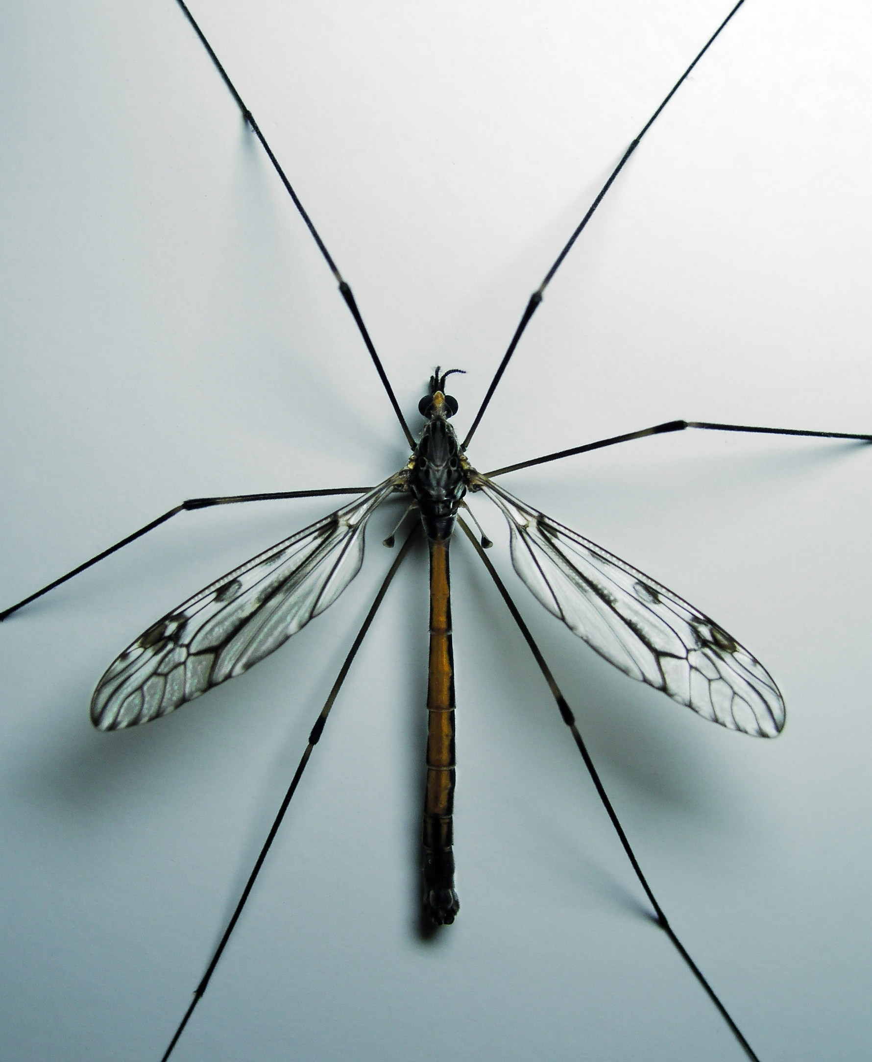 Crane Fly